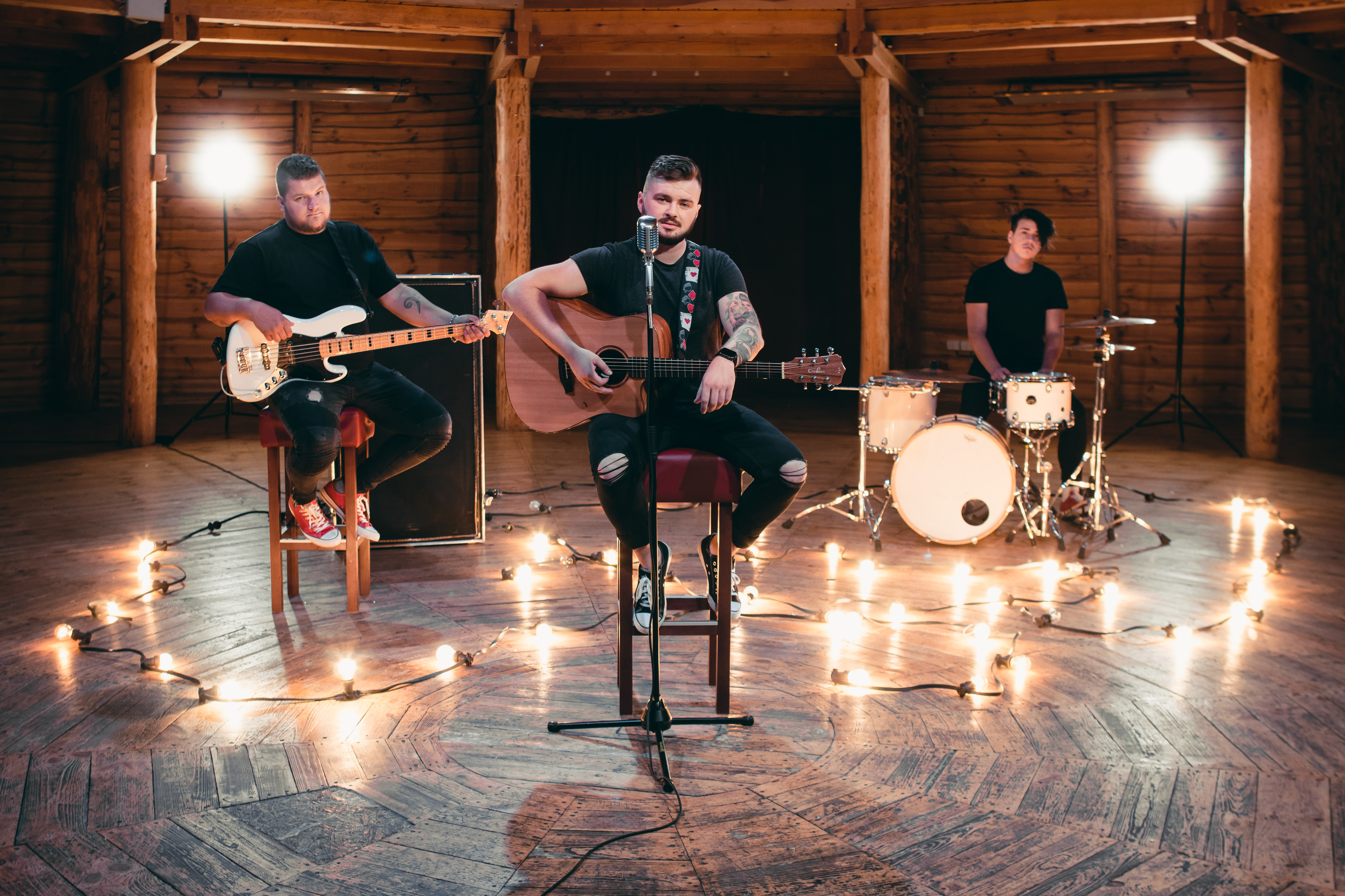 Sendwitch_promo